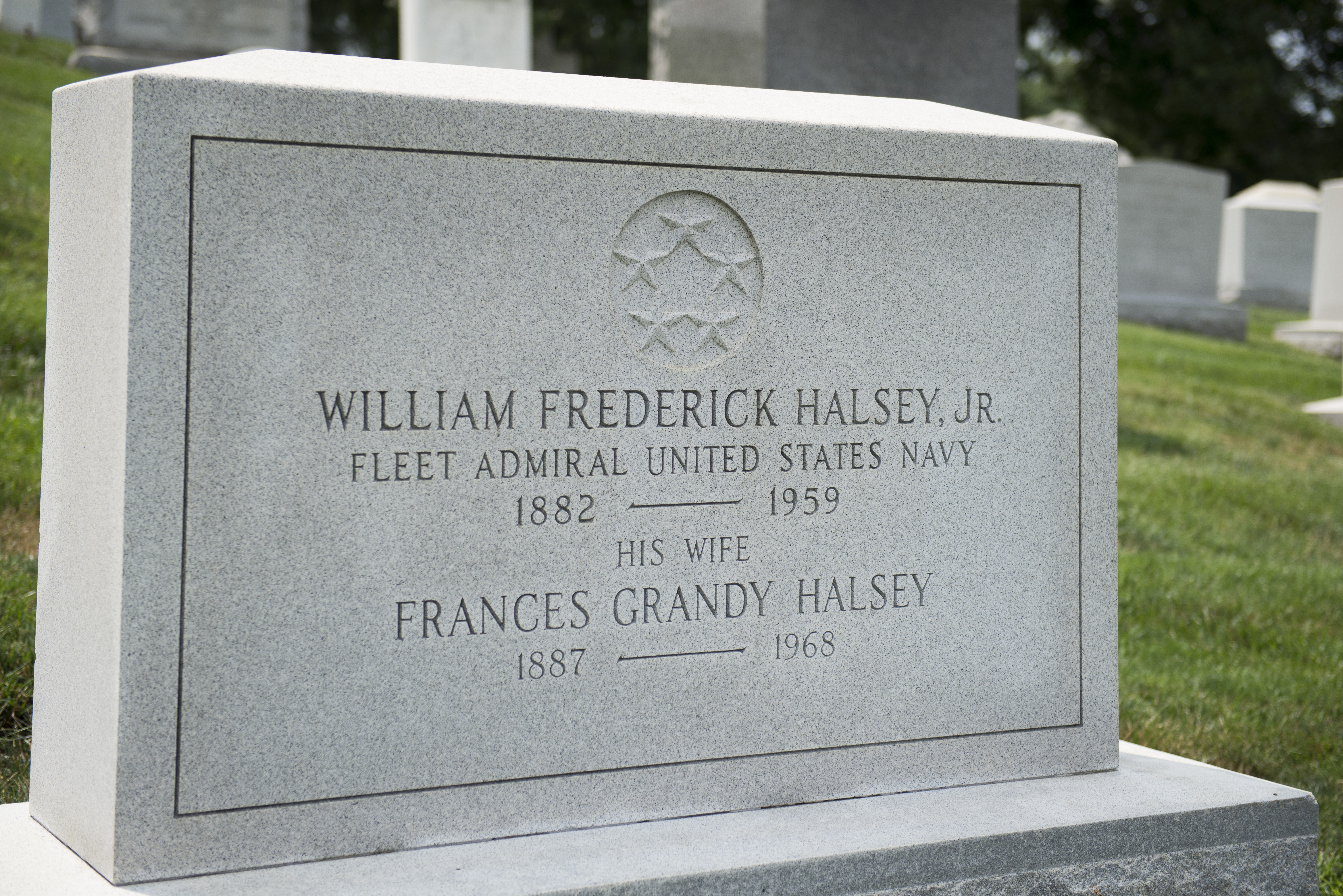 Fleet Admiral William Frederick Halsey Jr., Section 2, grave 1184 of Arlington National Cemetery, commonly referred to as “Bill” or “Bull” Halsey, was a U.S. Naval officer. He commanded the South Pacific Area during the early stages of the Pacific War against Japan. Later he was commander of the Third Fleet through the duration of hostilities. (U.S Army photo by Rachel Larue/released)